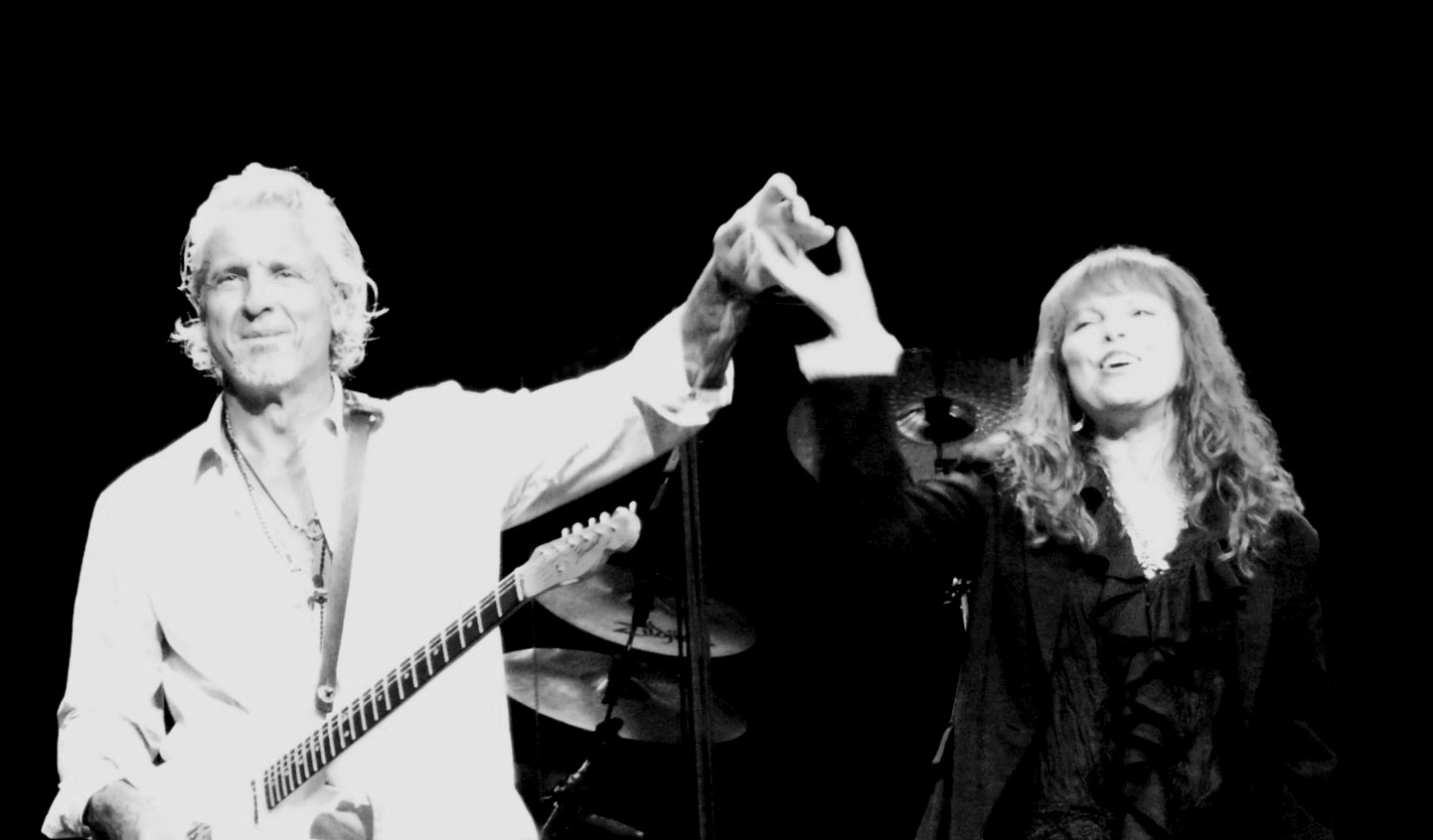 Pat Benatar performing with her husband and lead guitarist, Neil Giraldo. Live in Sydney, 22 Oct 2010.